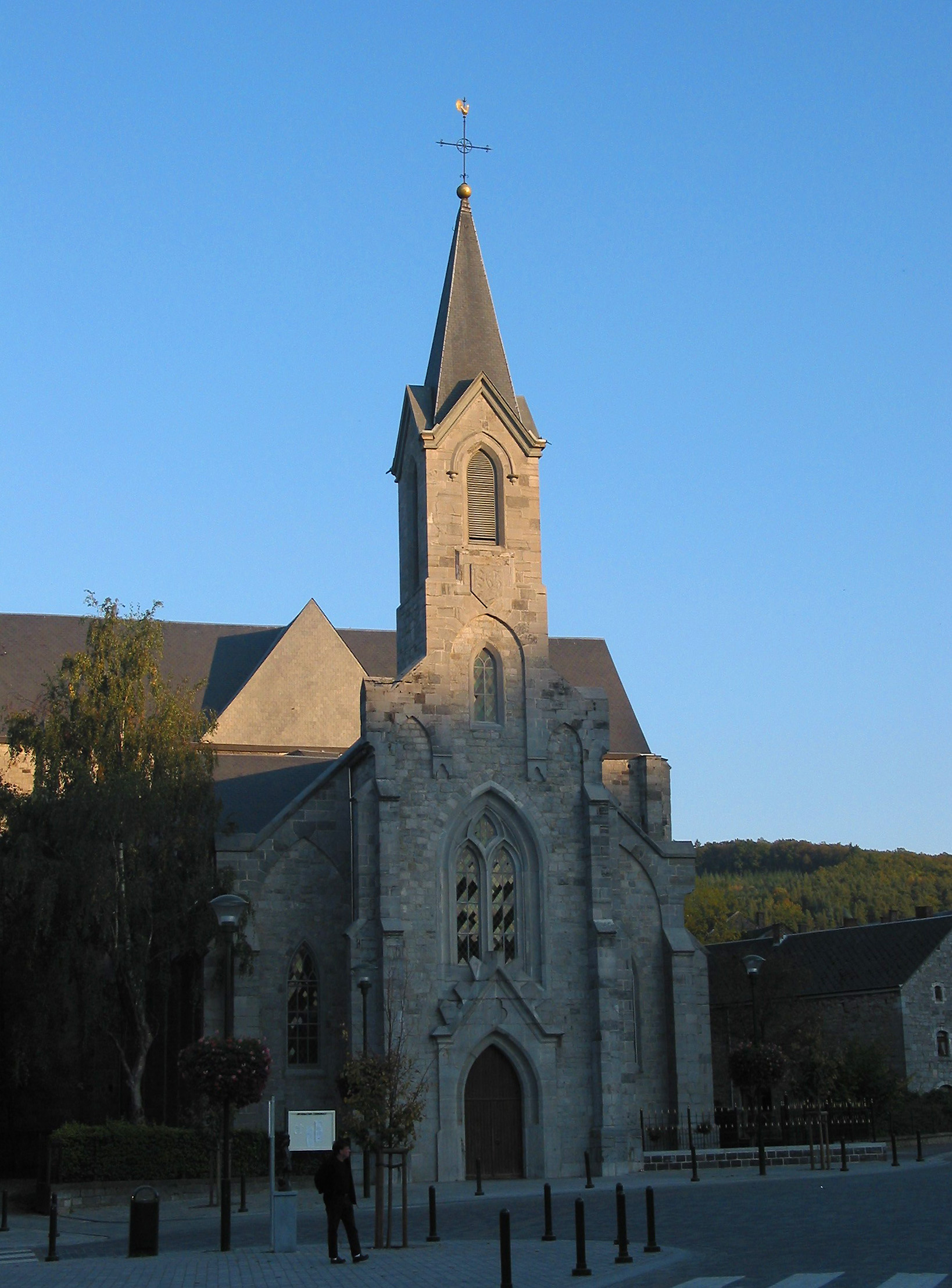 Jemelle (Belgium), the St. Marguerite of Antioche church (1864-1868).